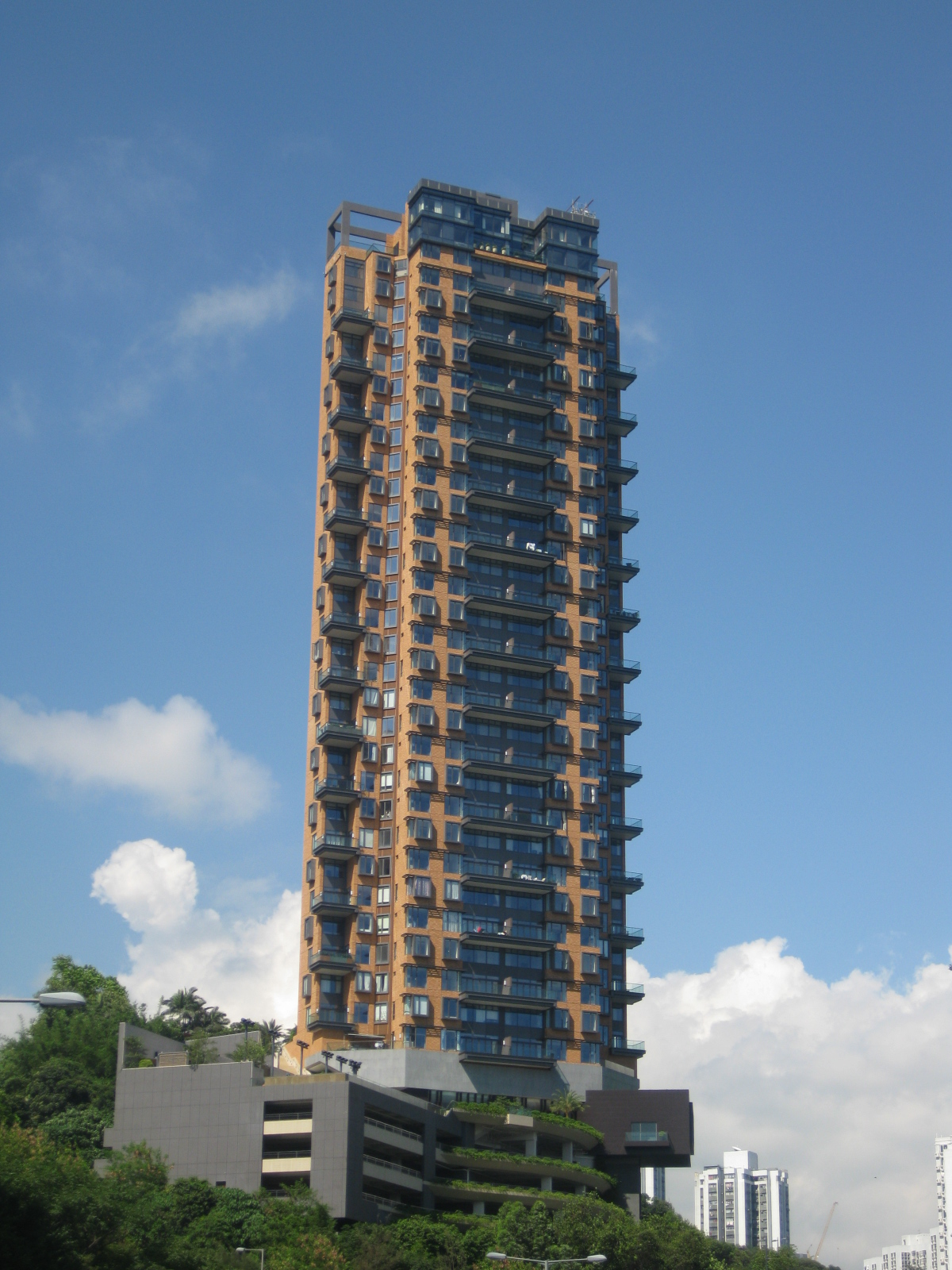 The Westminster Terrace